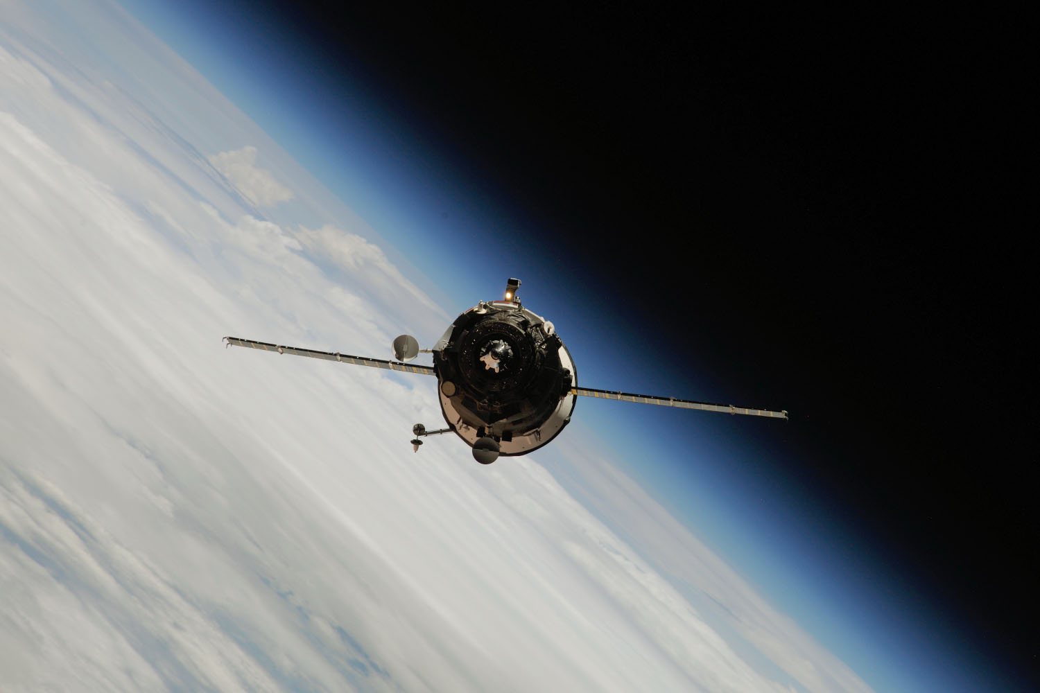 Backdropped by Earth's horizon and the blackness of space, an unpiloted ISS Progress resupply vehicle approaches the International Space Station, bringing about 2 ½ tons of food, fuel, oxygen, propellant and supplies for the Expedition 24 crew members aboard the station. Progress 39 successfully docked to the aft port of the Zvezda Service Module at 7:58 a.m. (EDT) on Sept. 12, 2010. The docking was executed flawlessly by the Kurs automated rendezvous system.